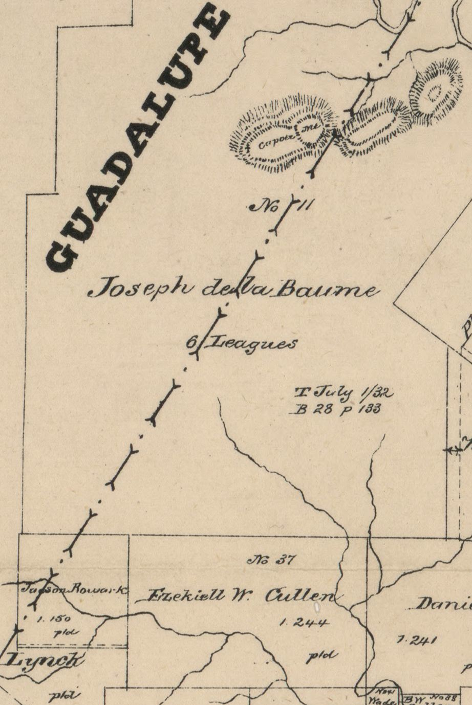 Map of Leesville Texas with tracts